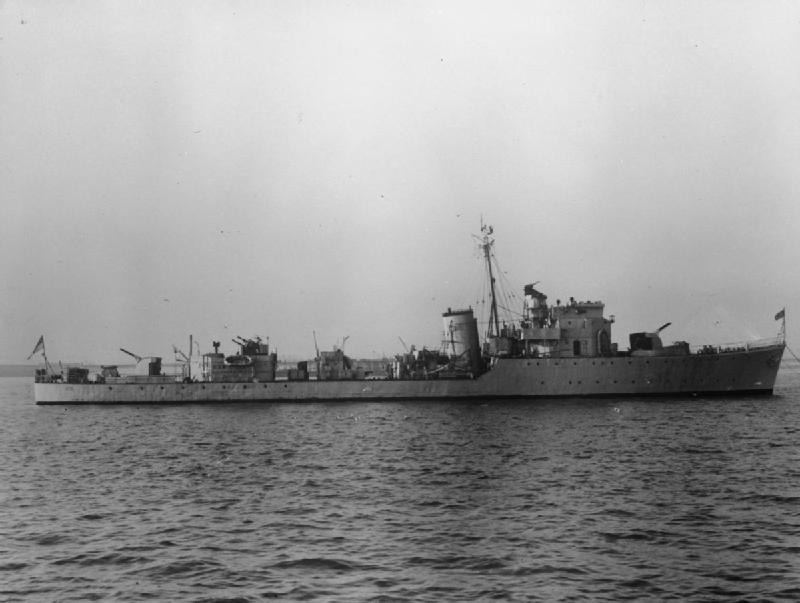 HMS Mendip moored.